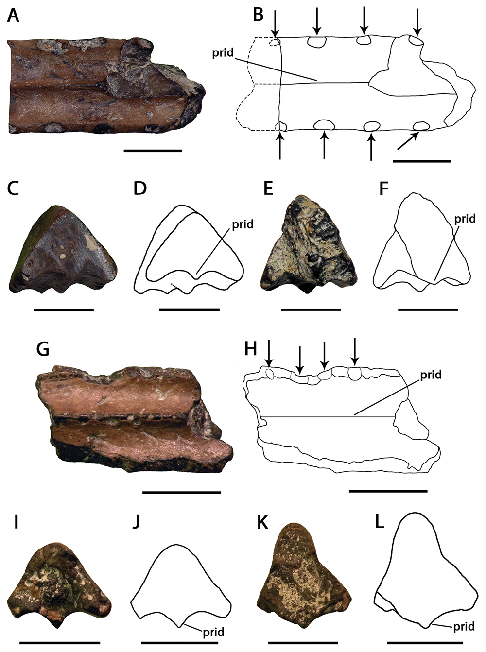 Lonchodraco(?) microdon comb. n. A–F holotype CAMSM B54486 (Albian, Cambridge Greensand), anterior fragment of the rostrum A ventral view B respective line drawing C anterior view D respective line drawing E posterior view F respective line drawing. In B dashed lines indicate the portion lost since the original description G–L referred specimen CAMSM B 54439 (Albian, Cambridge Greensand), anterior fragment of the rostrum G ventral view H respective line drawing I anterior view J respective line drawing K posterior view L respective line drawing. Abbreviation: prid – palatal ridge. Arrows indicate alveoli or teeth. Scale bar = 10 mm.